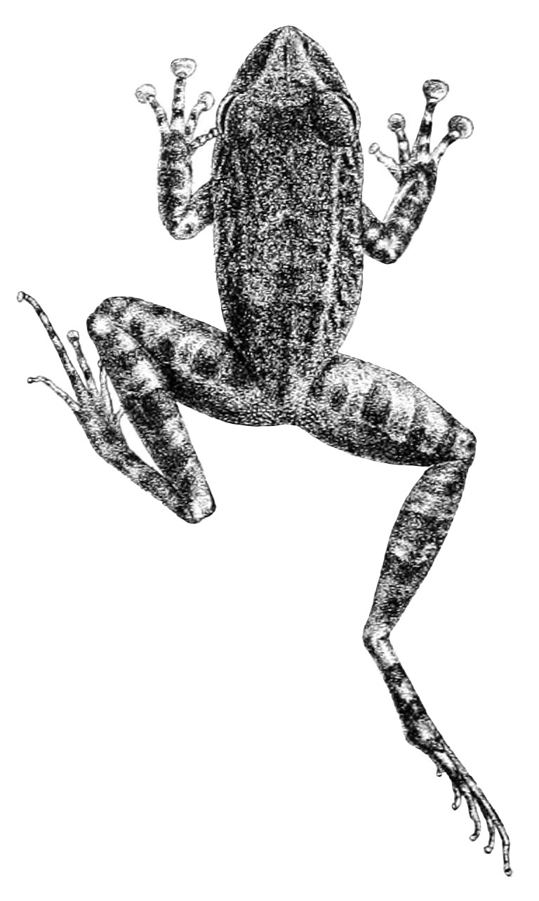 Cornufer guentheri = Platymantis guentheri